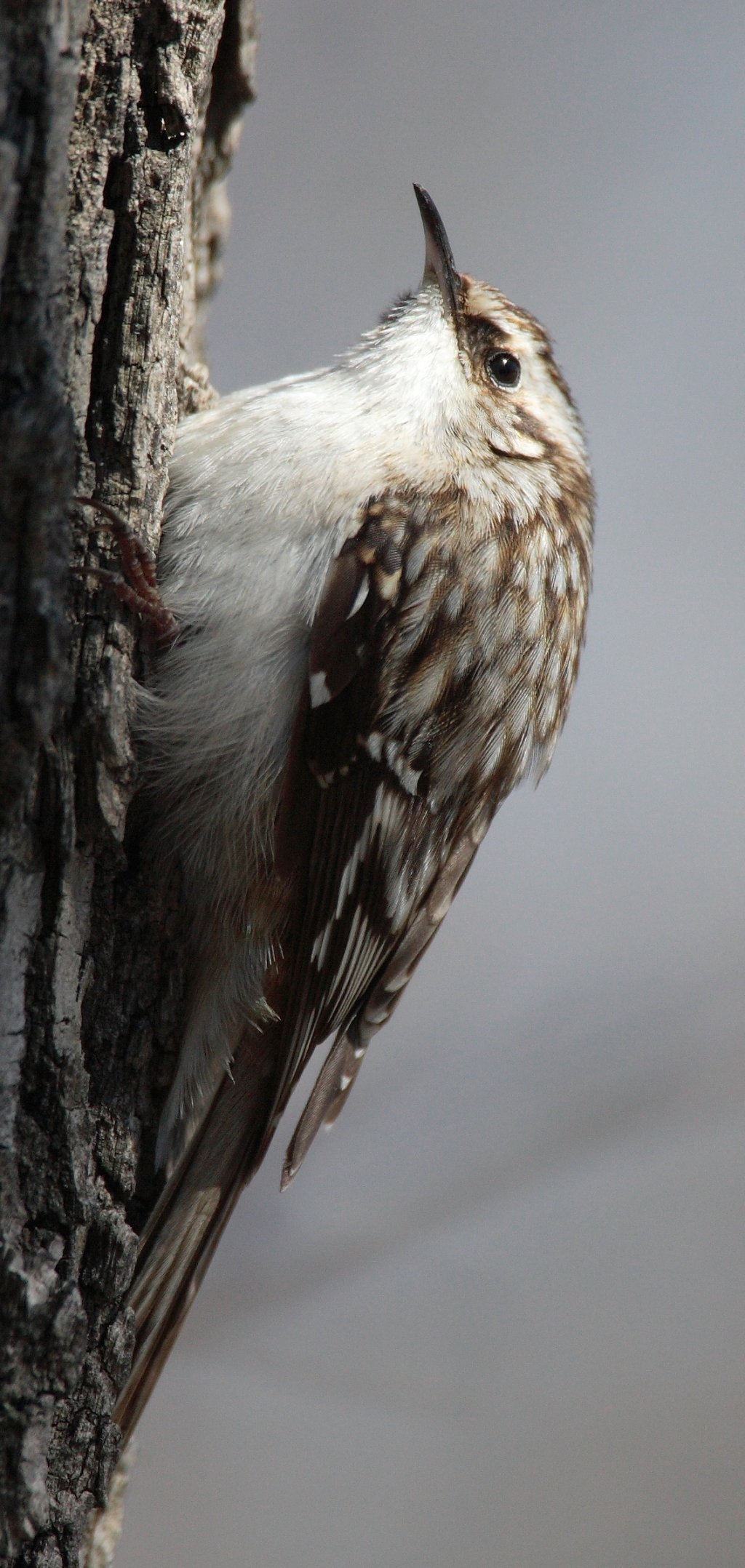 Brown Creeper -- Humber Bay Park, Toronto, Canada -- 2006 April